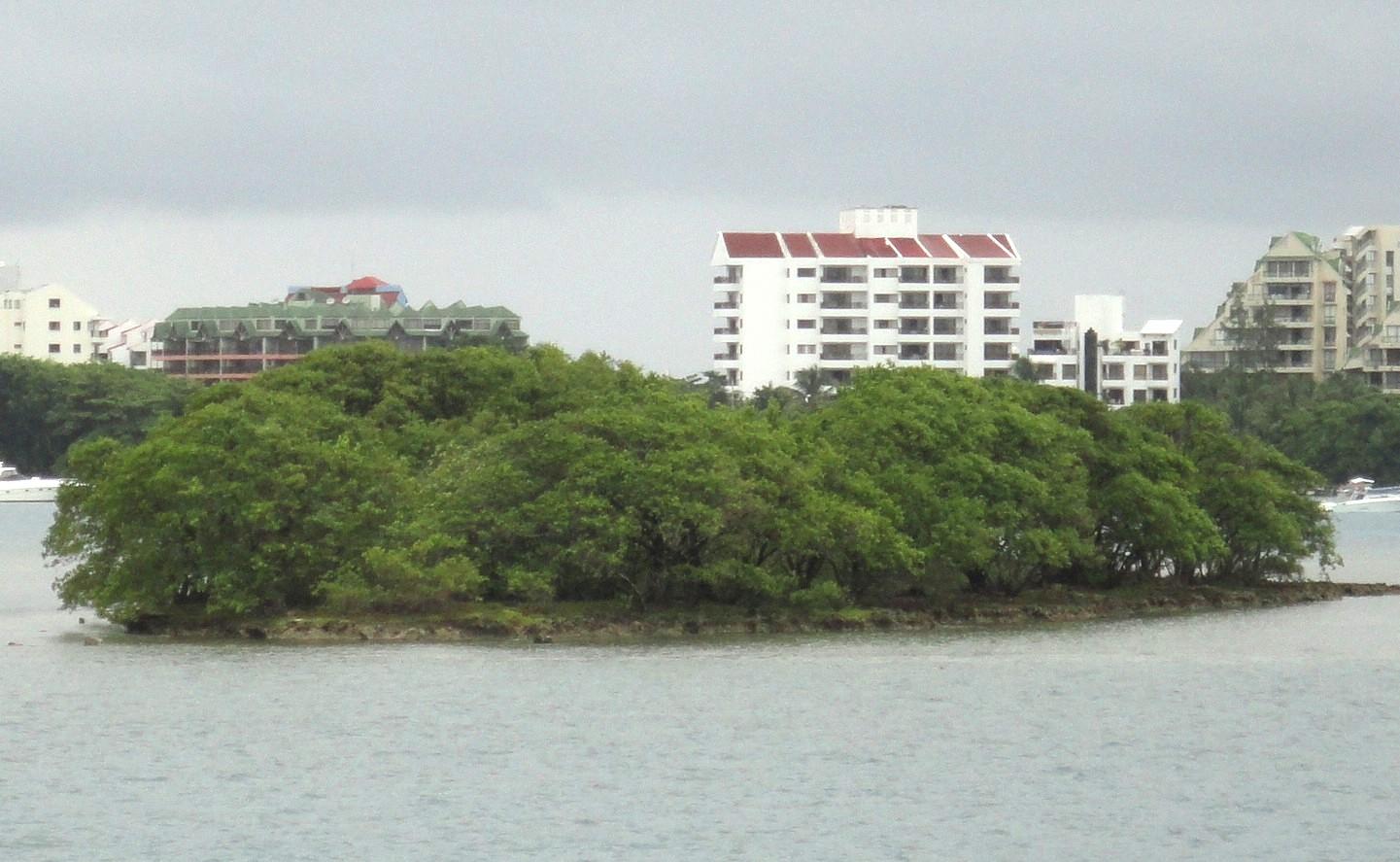 Santander Cay (Cotton Cay) from south